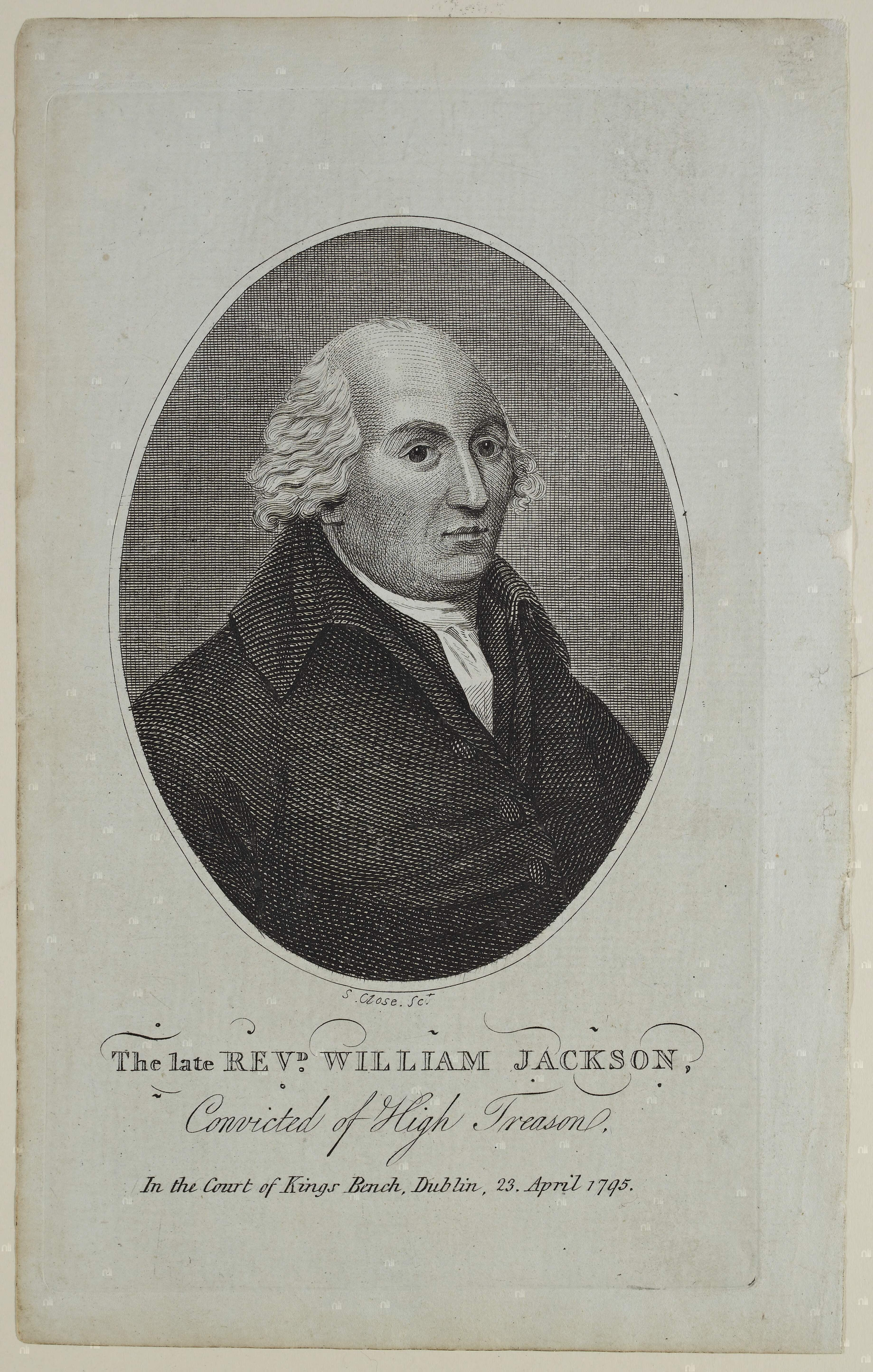 The Late Revd. William Jackson, convicted of High Treason, in the court of Kings Bench, Dublin, 23 April 1795. Rev. William Jackson, (1737-1795), United Irishman ; head & shoulders, to right. between ca. 1795 and 1807